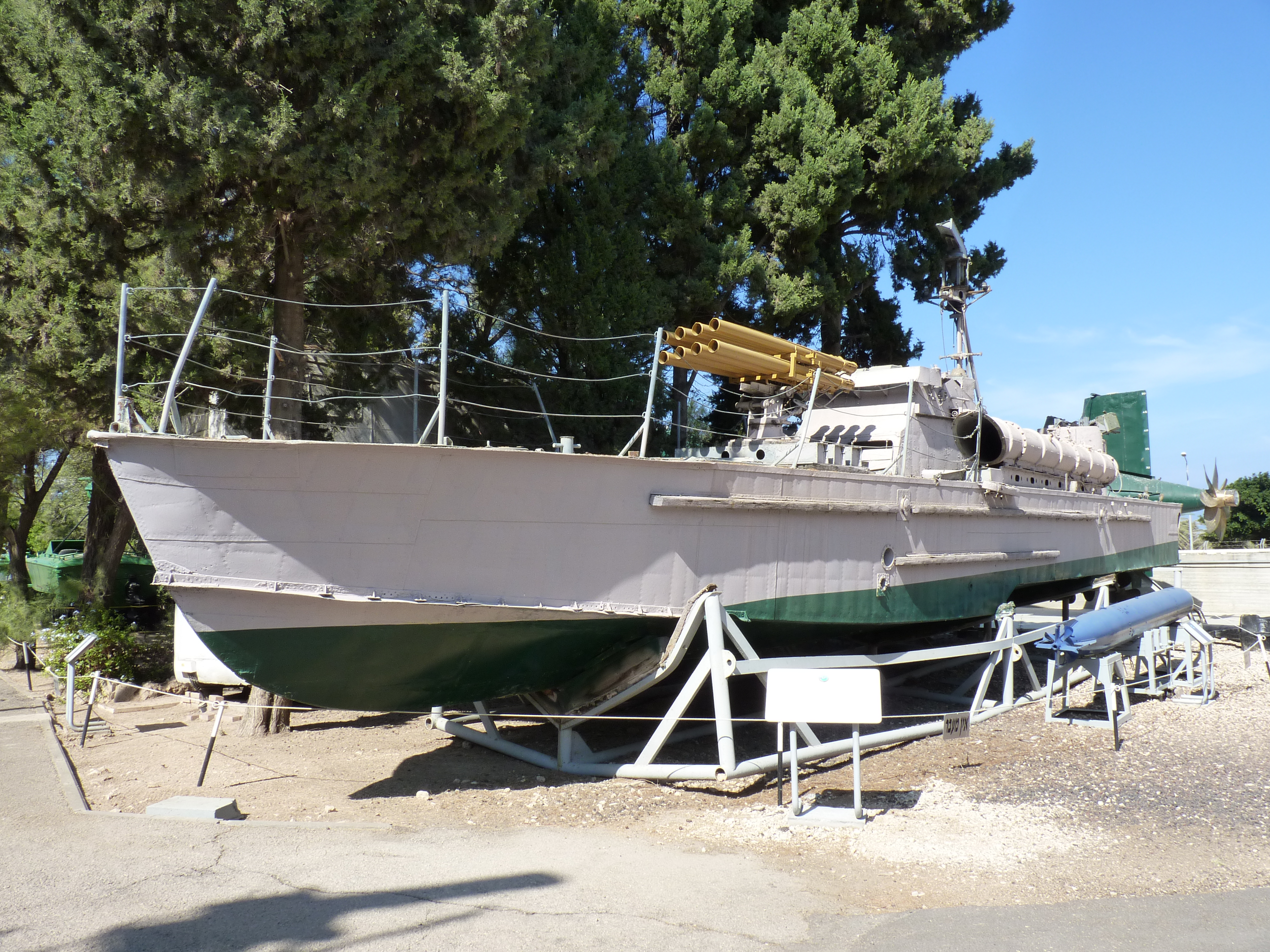 P1090947 Clandestine Immigration and Naval Museum, Haifa